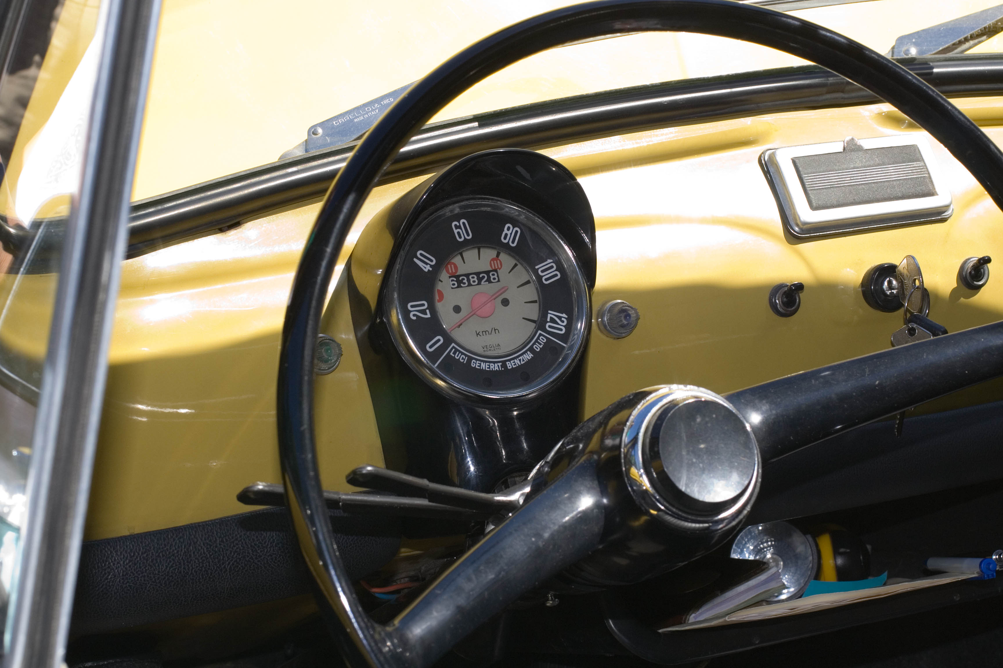 The Fiat 500's dash.